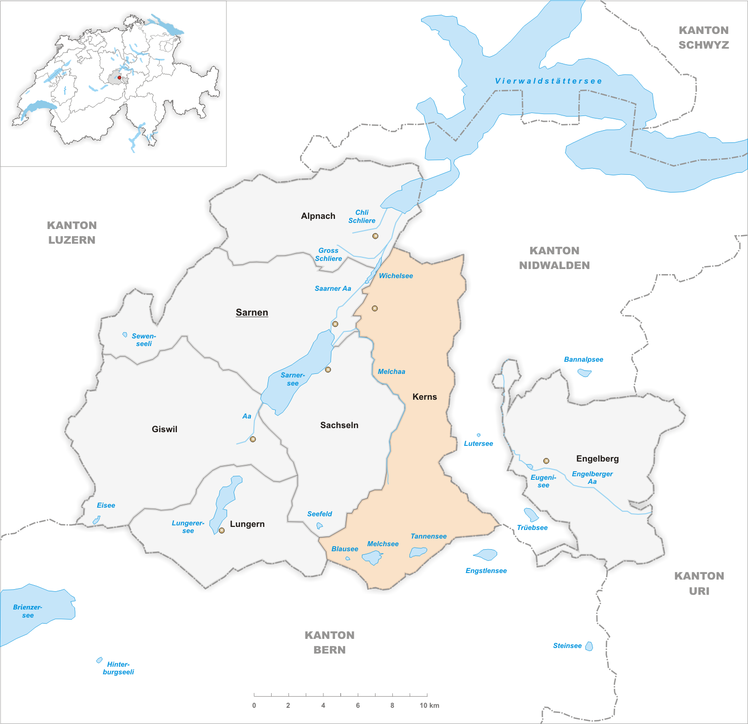 Municipality Kerns